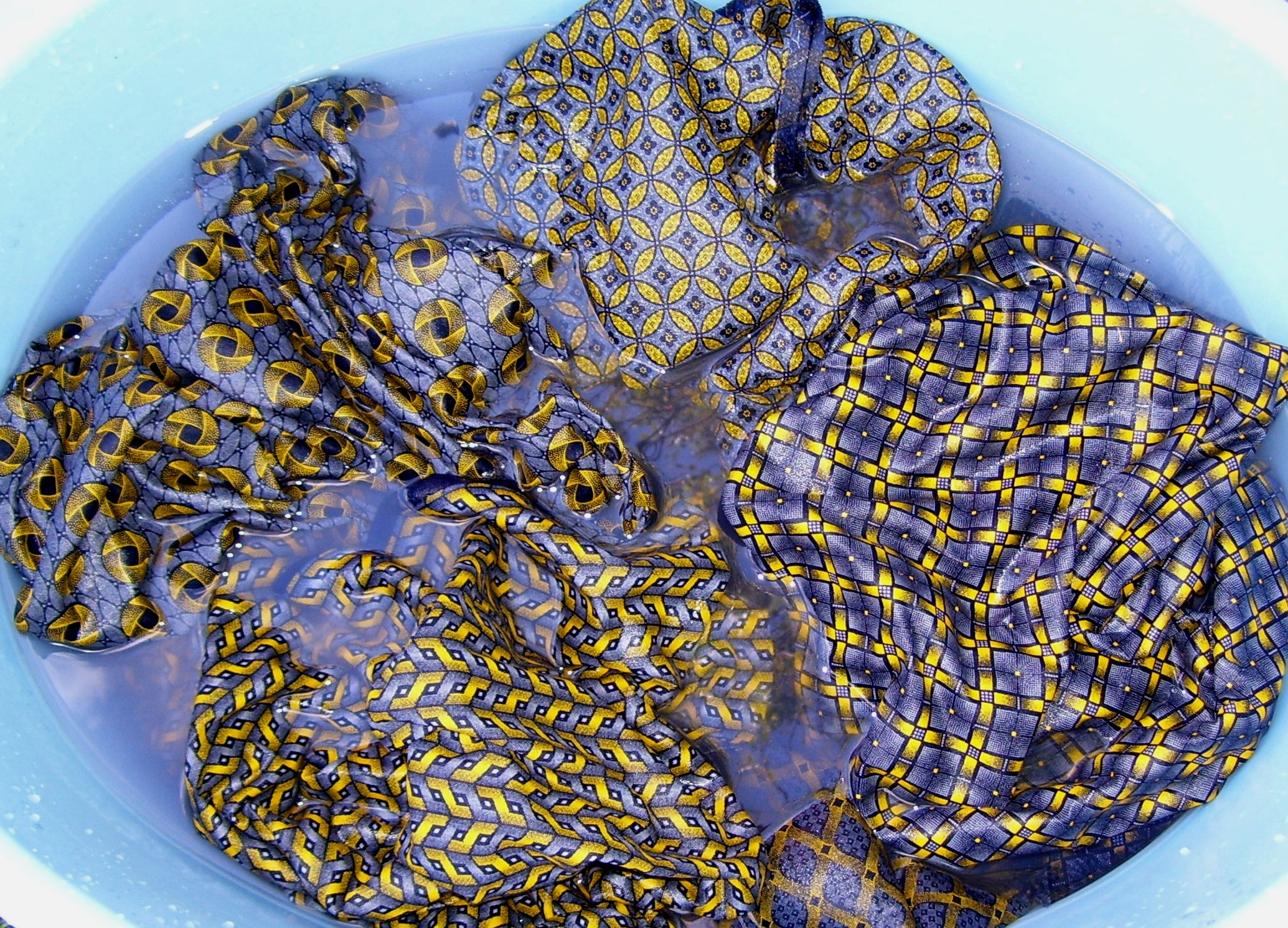 Shwe-Shwe is the favourite fabric of Southern Africa, a discharged indigo cotton fabric originating in Central Europe. When purchased it is as stiff as cardboard due the starch essential during the highly refined discharge process. Here several pieces are seen soaking in a plastic bowl of water to remove the starch. Whereas it was once worn only by traditionally-minded African women, now it has also been embraced by 'High Fashion'. It is almost always used in garments employing various related patterns pieced together, and most garments are unique, a collaboration between the sewist and the wearer. Traditionally, white 'rick-rack' might be added to enhance the decorative quality. This is an image of Cultural Fashion or Adornment from South Africa